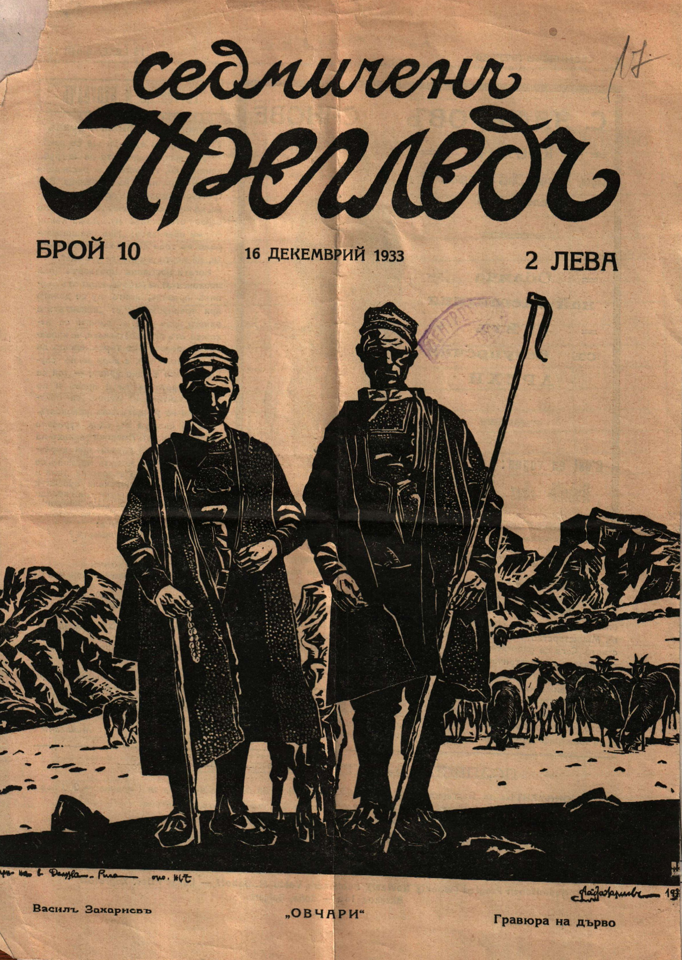 Sedmichen pregled magazine, Bulgaria